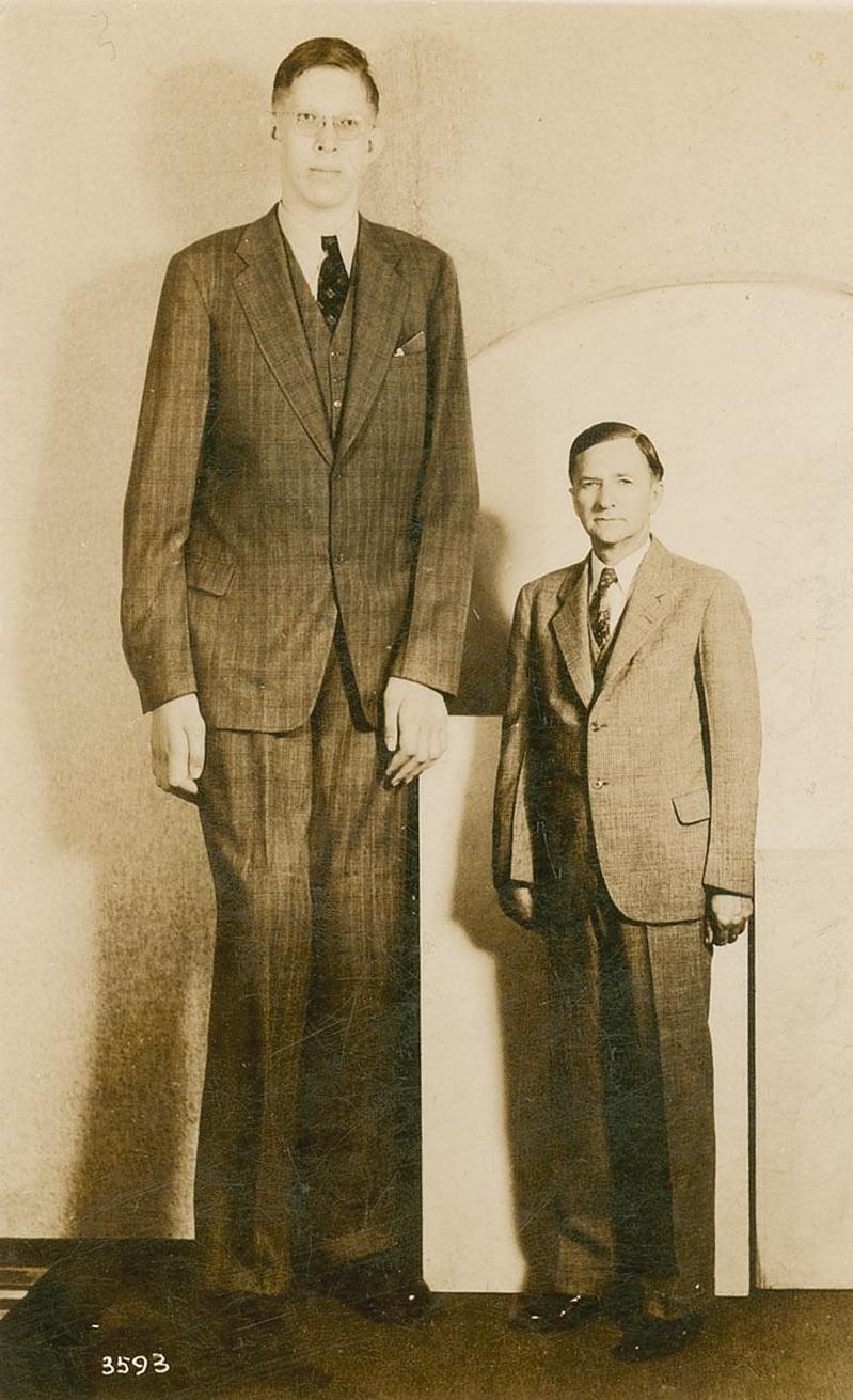 Front of postcard of Robert Wadlow (left) with his normal-sized father (right).